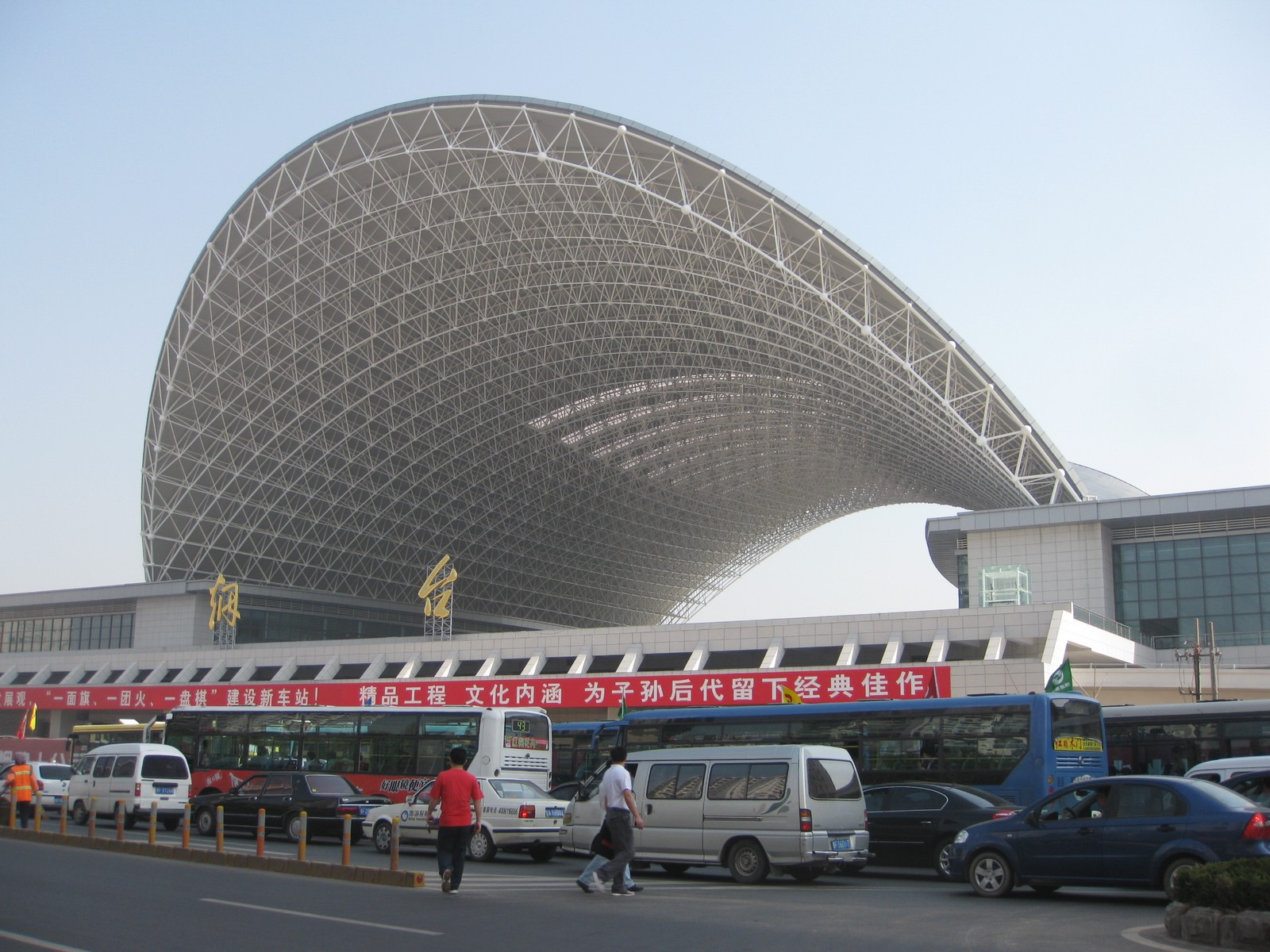 The facade of Yantai Railway Station